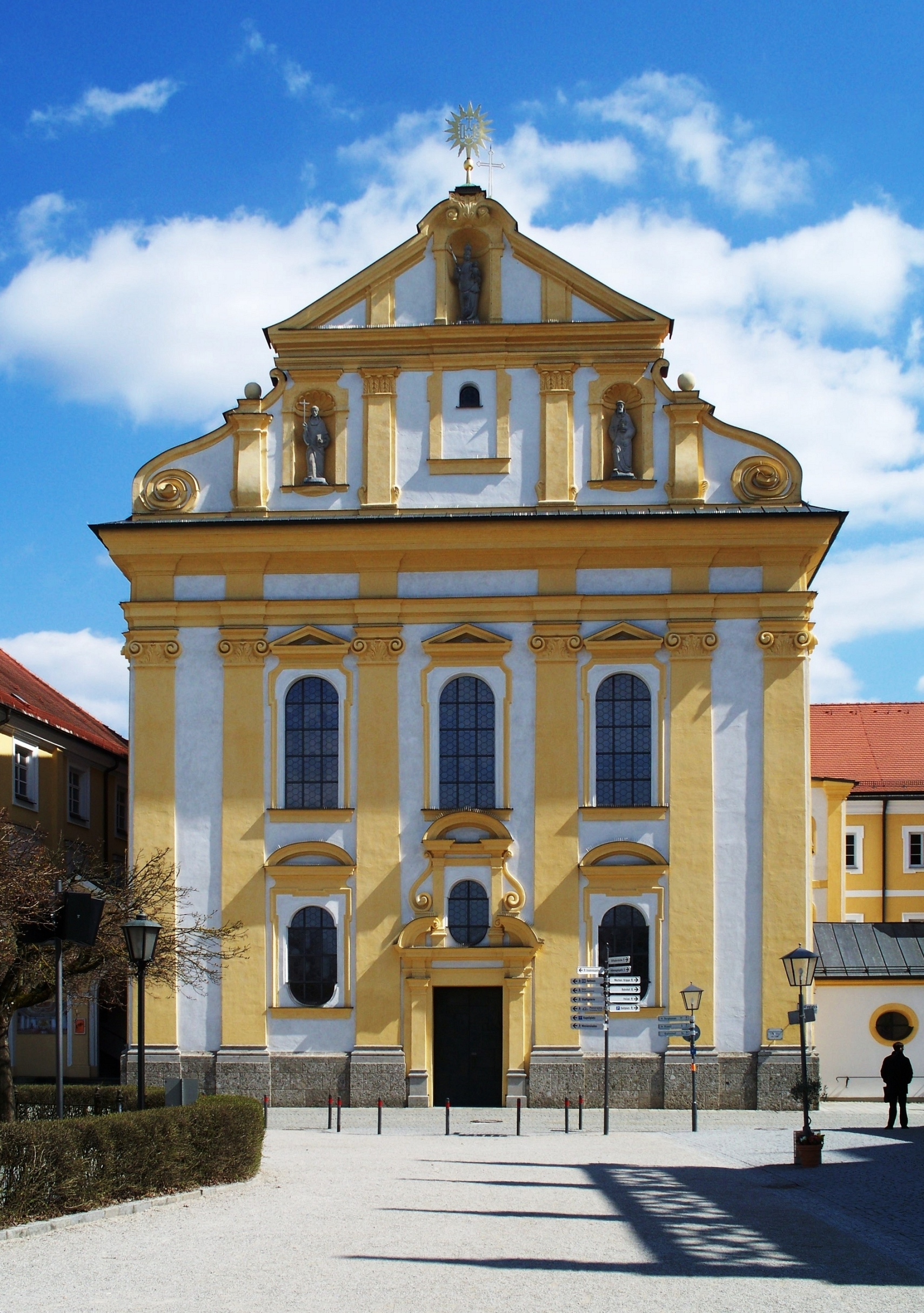 The Capuchin Baroque church of St. Magdalena in Altötting in April 2010.